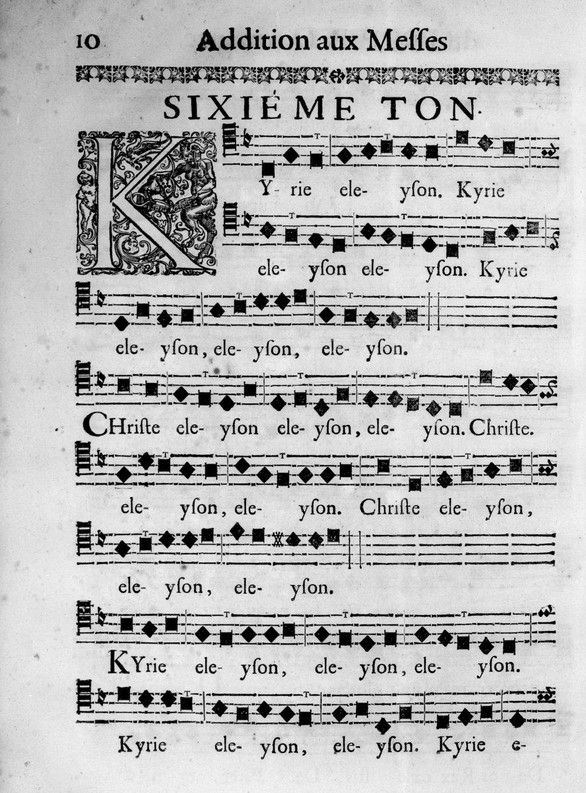 One page of Paul Damance's Additions aux messes, 1707